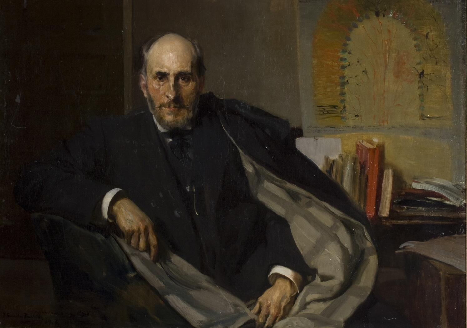 Portrait of Santiago Ramón y Cajal (1852-1934).